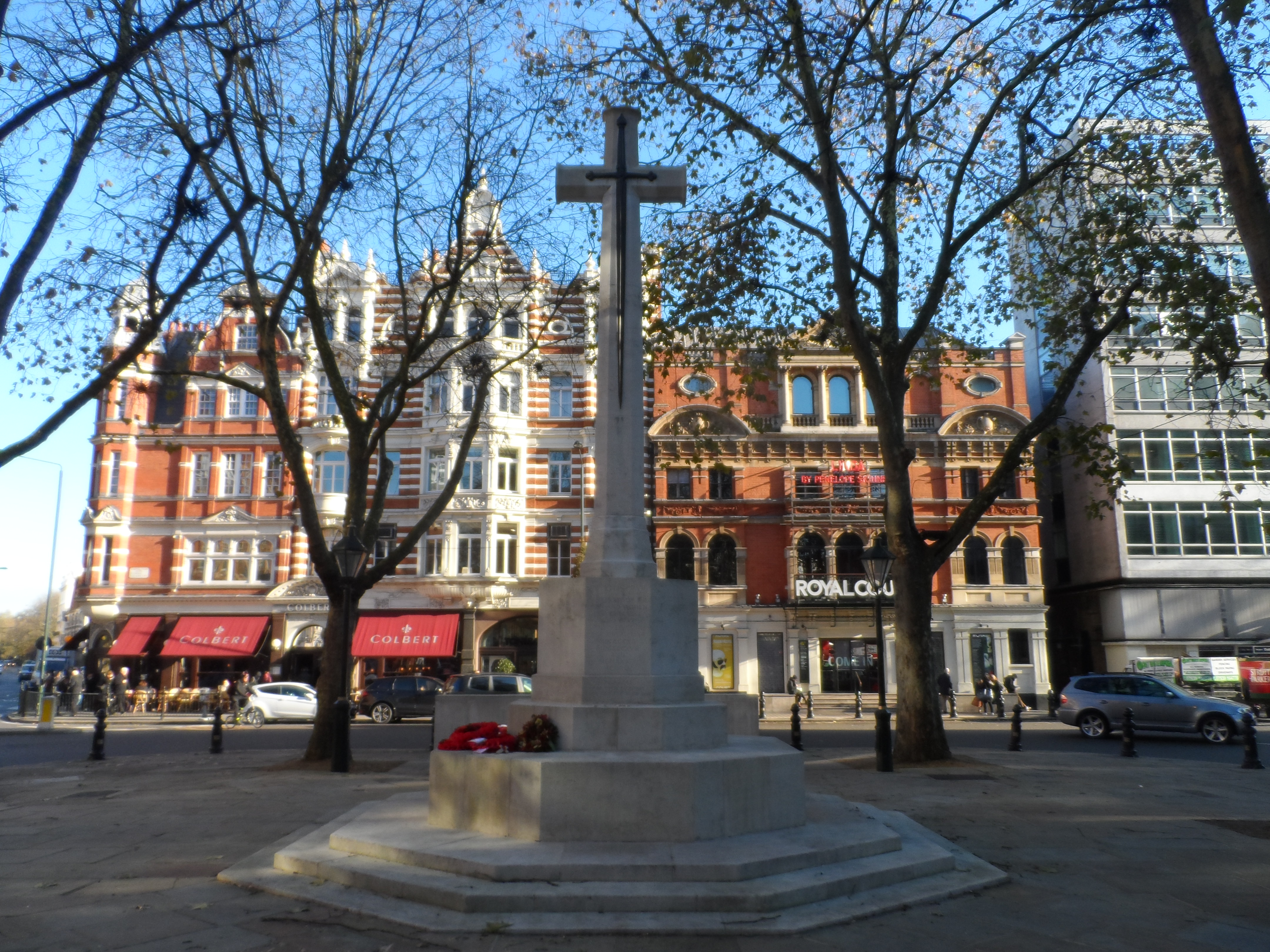 Cross of Sacrifice in Sloane Square, London. Also known as the Chelsea War Memorial.